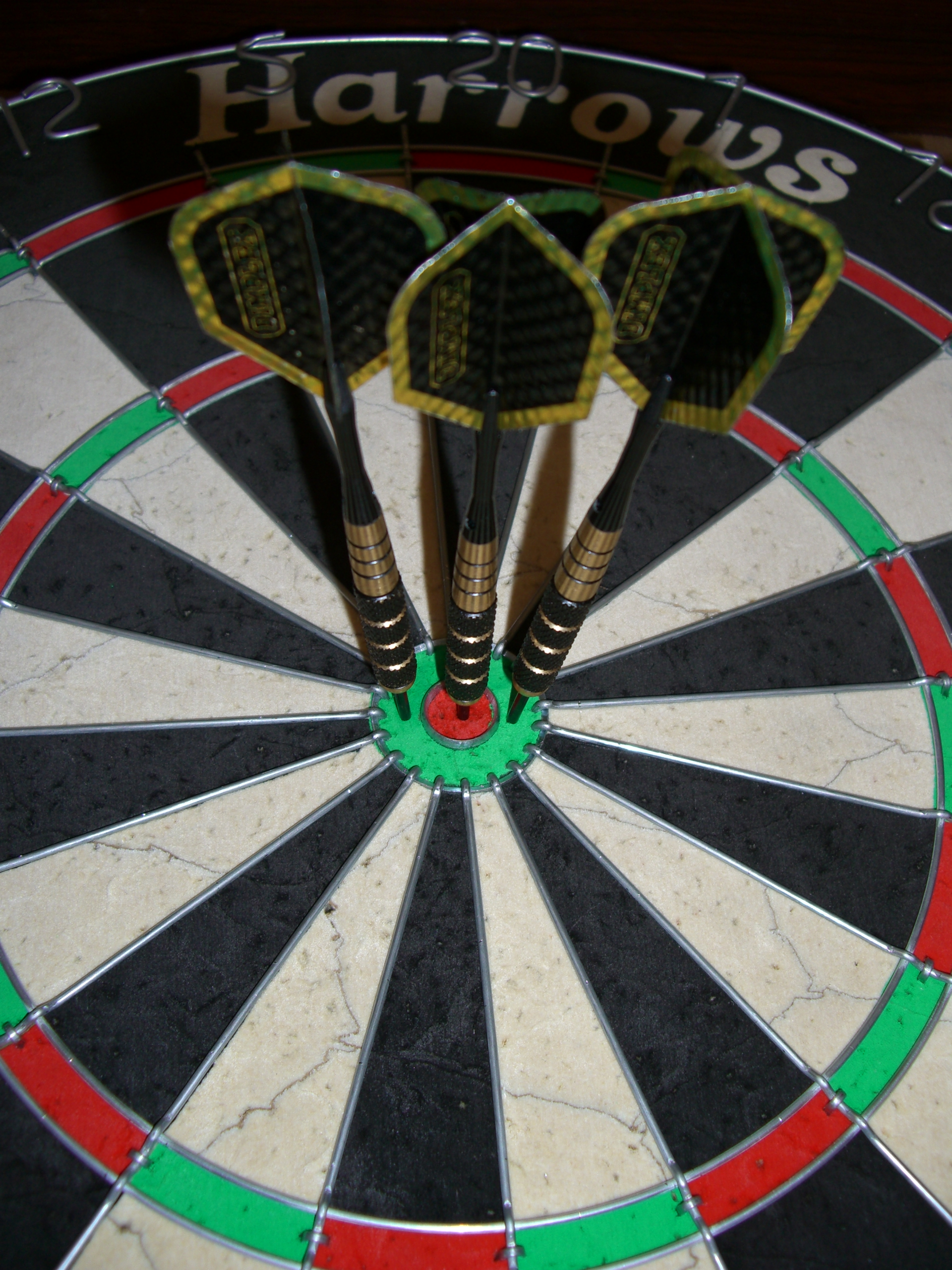 Three darts in a row on a standard Harrows Bristle Board.